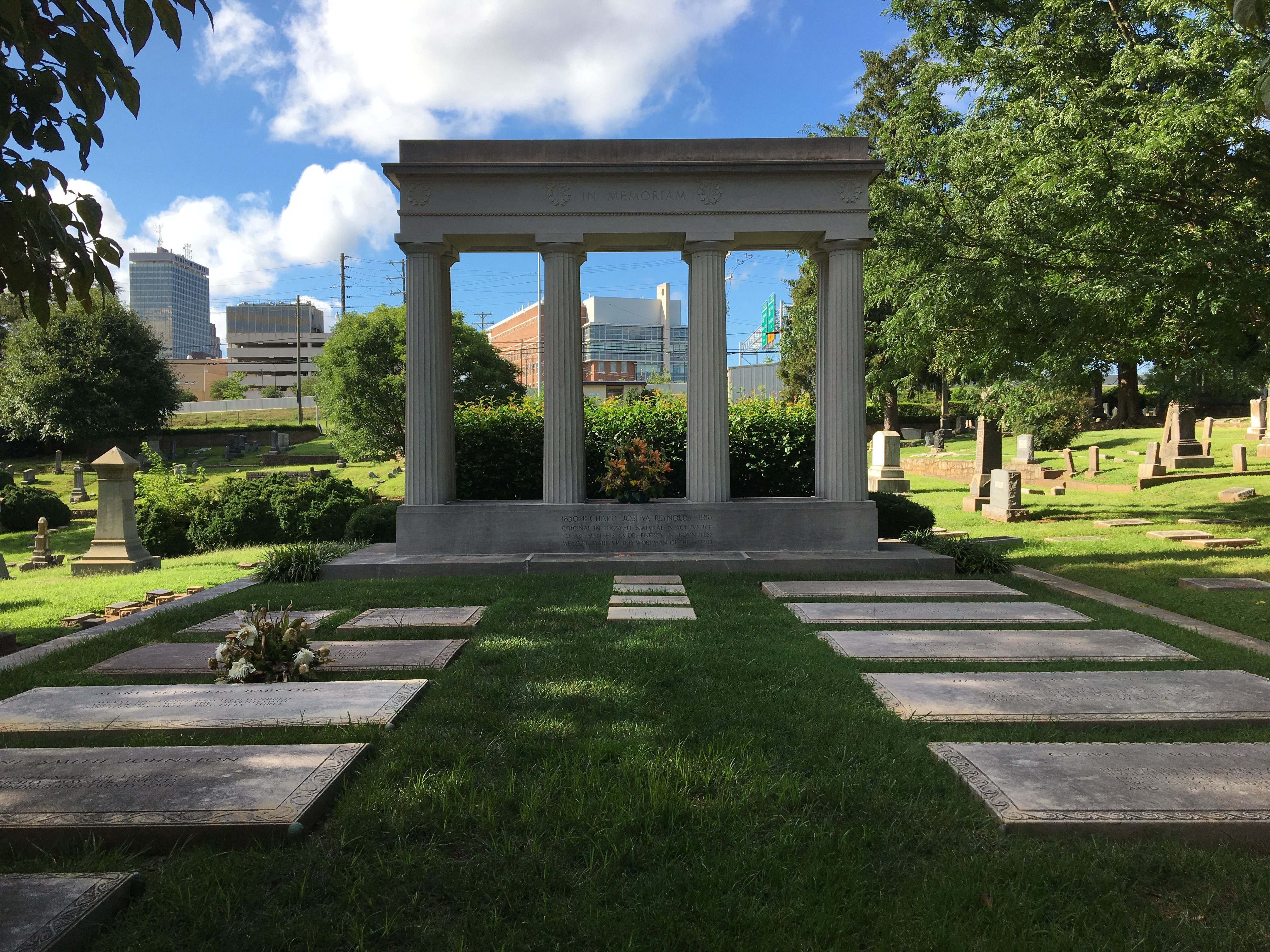 Family grave of R.J. Reynolds (1850-1918) immediate family and descendants in Salem Cemetery, Old Salem Historic District.